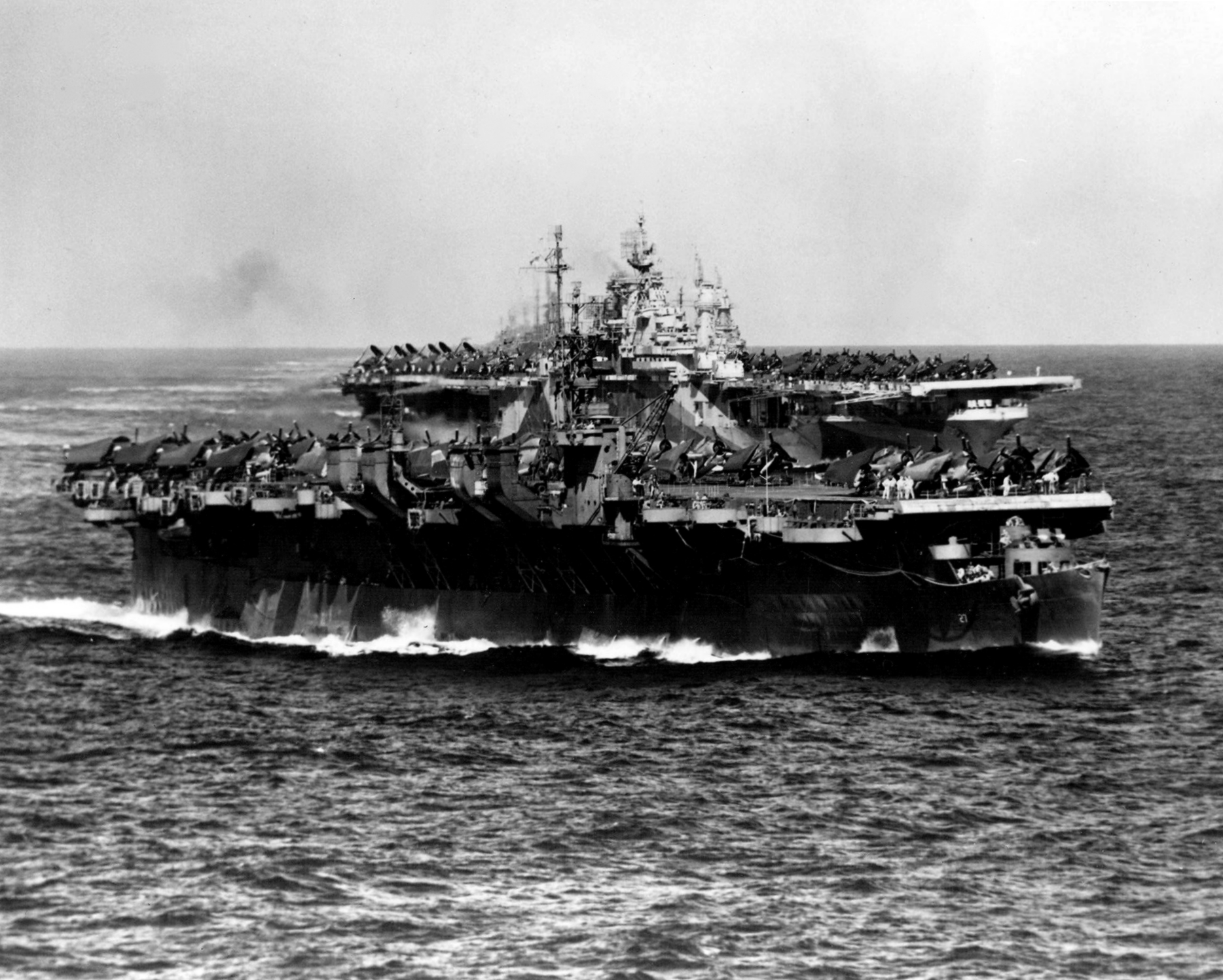 The U.S. Navy Task Group 38.3 makes a simultaneous turn to port from column formation, while entering Ulithi anchorage on 12 December 1944, after strikes against the Japanese in the Philippines. Ships are (from front to back): the aircraft carriers USS Langley (CVL-27) and USS Ticonderoga (CV-14); the battleships USS Washington (BB-56), USS North Carolina (BB-55) and USS South Dakota (BB-57); the light cruisers USS Santa Fe (CL-60), USS Biloxi (CL-80), USS Mobile (CL-63) and USS Oakland (CL-95).